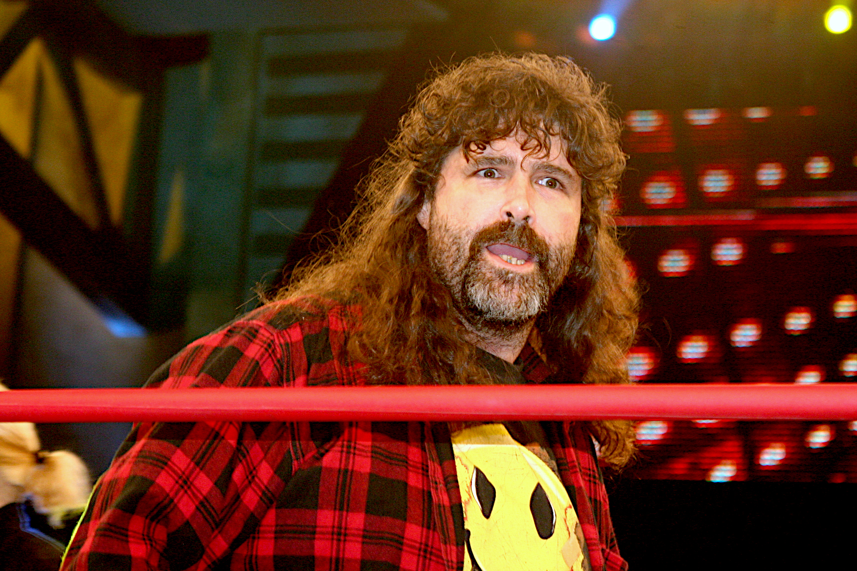 Professional wrestler Mick Foley at TNA Impact! on July 27, 2010.